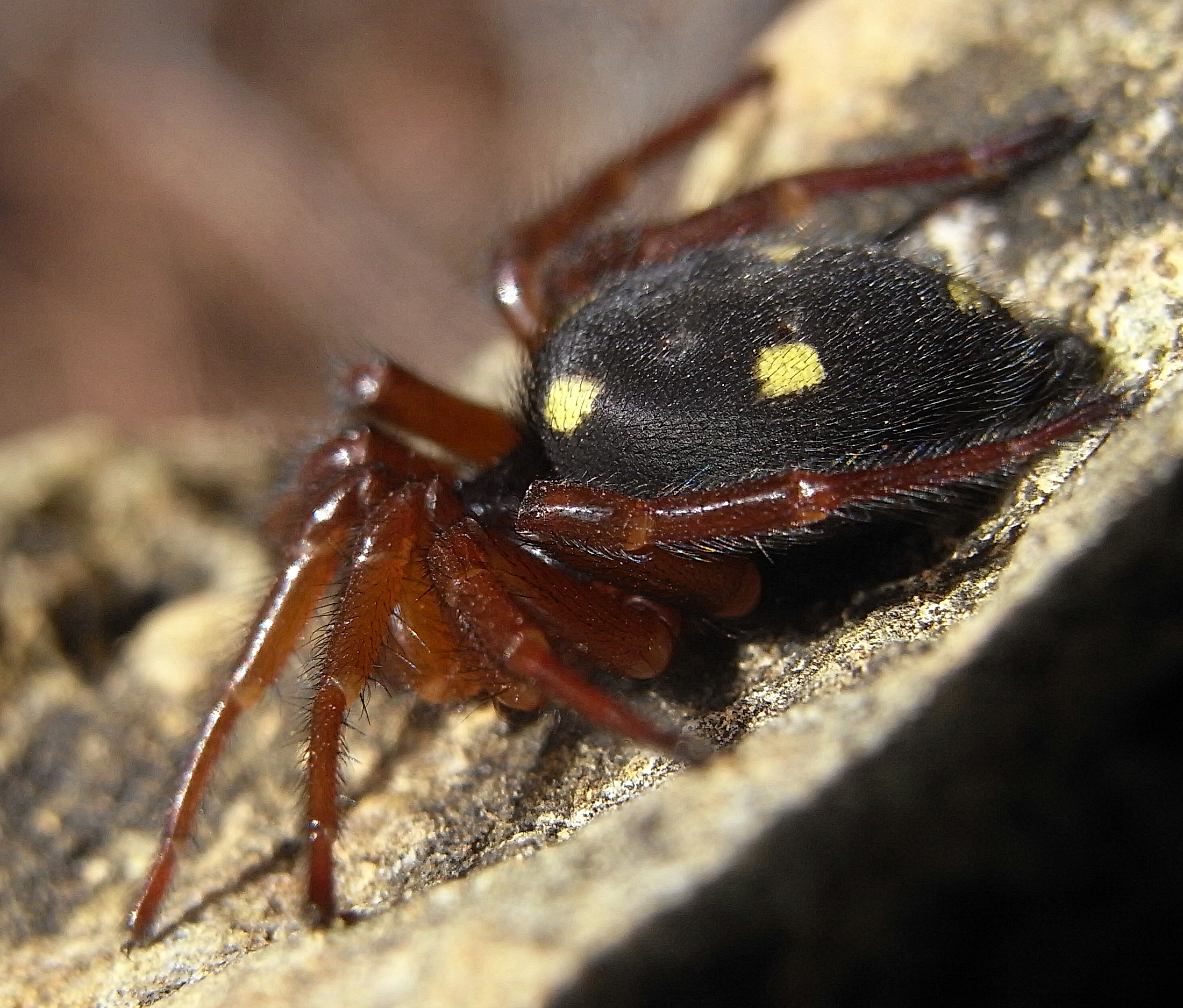 Uroctea durandi Ricoh R8